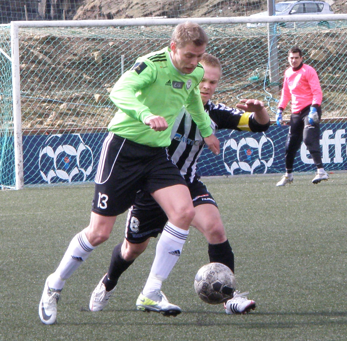 Símun Hansen from B36 Tórshavn and Martin Tausen from TB Tvøroyri. Football match in the Premier League of the Faroe Islands on 15 April 2012. TB's goal keeper Ivan Stojkovic in the back ground. Føroyskt: Fótbóltsdystur millum TB og B36 á Eiðinum í Vági hin 15. apríl 2012. Leikarin í grønum er Símun Hansen. TB leikarin er Martin Tausen. Málmaðurin hjá TB Ivan Stojkovic sæst í bakgrundini.